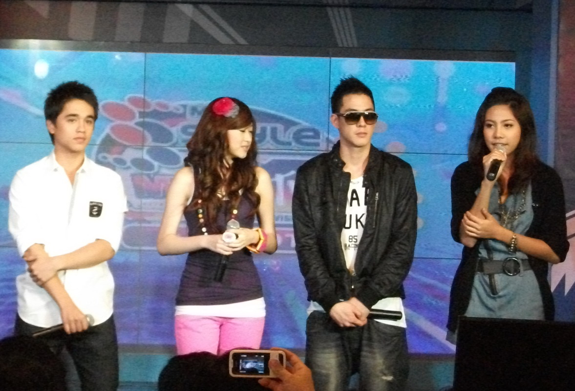 From L-R: Alexander Simon Rendell, Keerati Mahaplearkpong, Howard Wang, M.R. Mannarumas Yugala